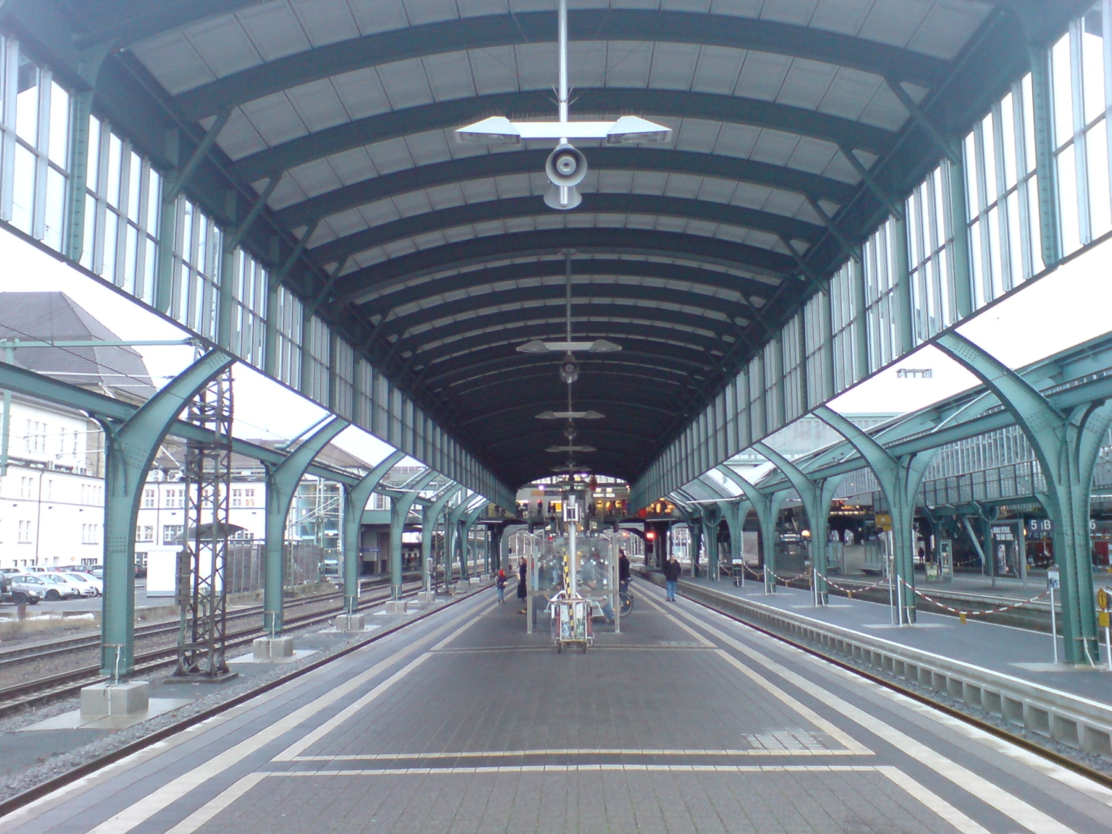 The vaulted, bolted trusses platform roofs of the Darmstadt Hauptbahnhof in Darmstadt, Germany. Looking south along the easternmost island platform.